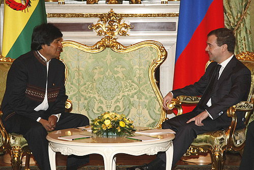 THE KREMLIN, MOSCOW. With President of Bolivia Evo Morales Ayma.